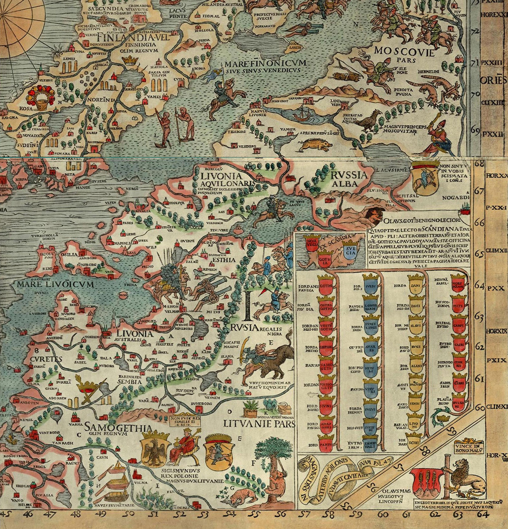 Belarus and Baltic countries on Carta Marina